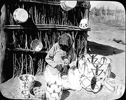 Papago basketmaker at work, Arizona. Photographed by H. T. Cory, 1916.